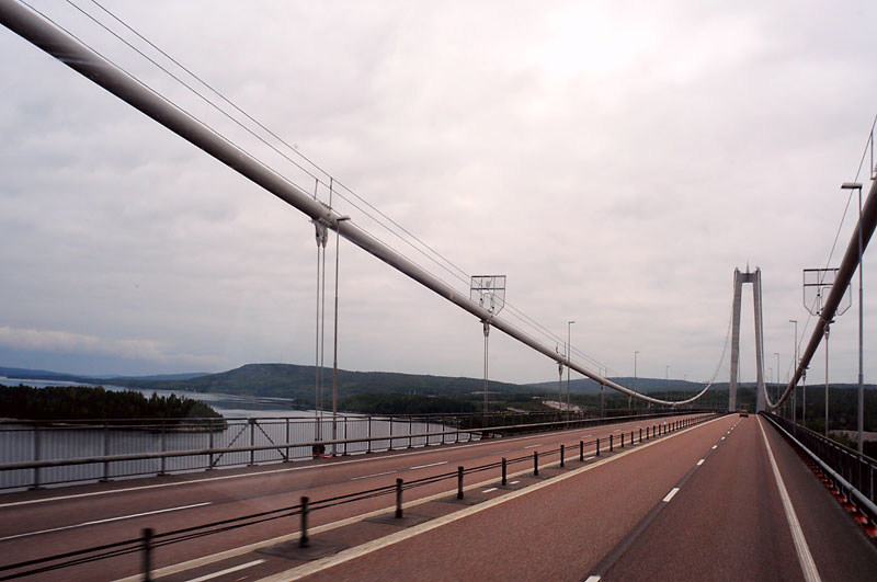 The E4-bridge over Ångermanälven in Sweden